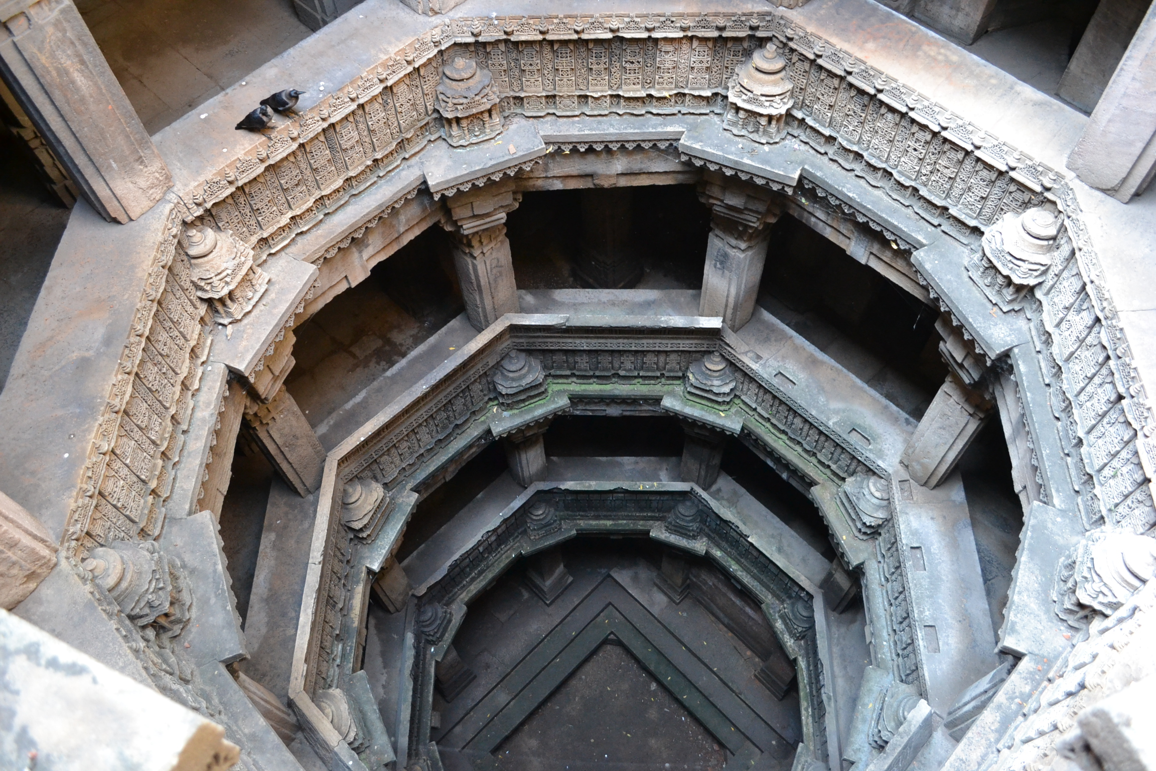 Dada Harir Stepwell - top view